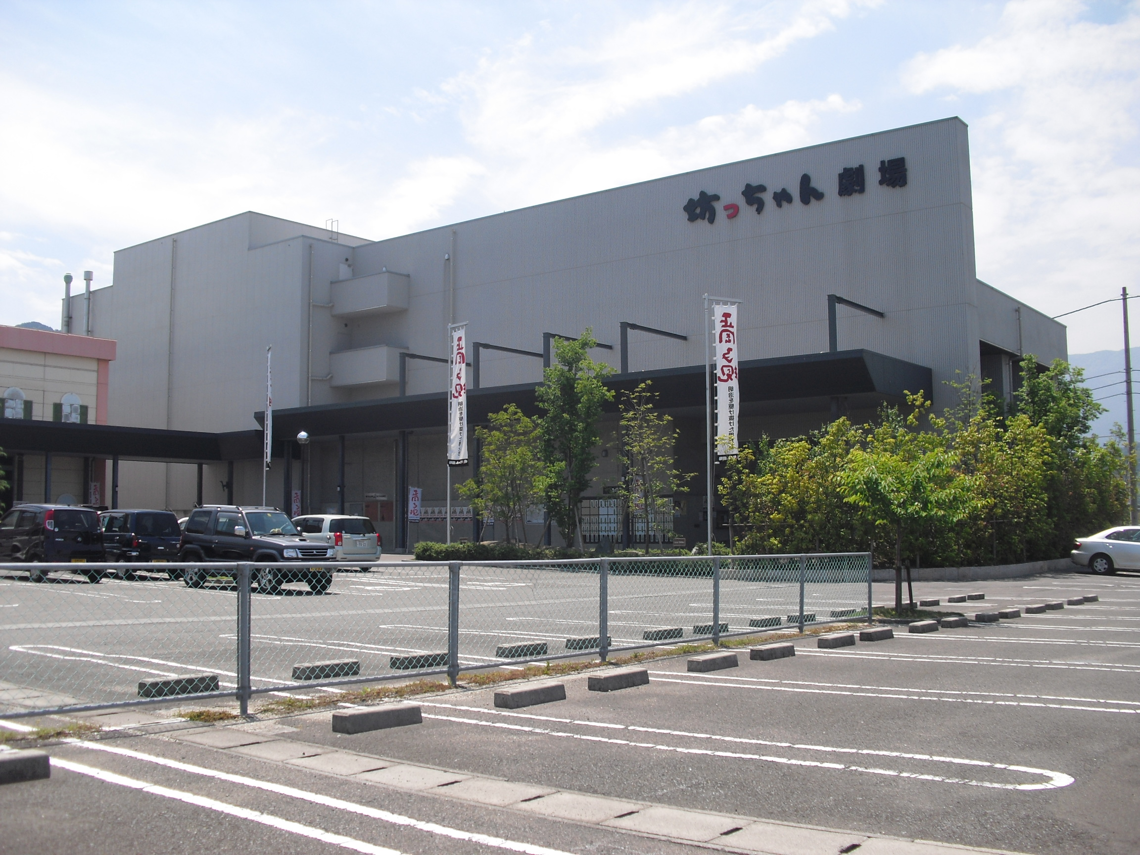 Botchan gekijo theater